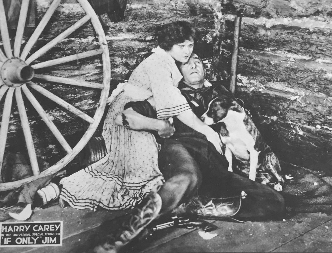 Lobby card for the American western film 'If Only' Jim (1920).